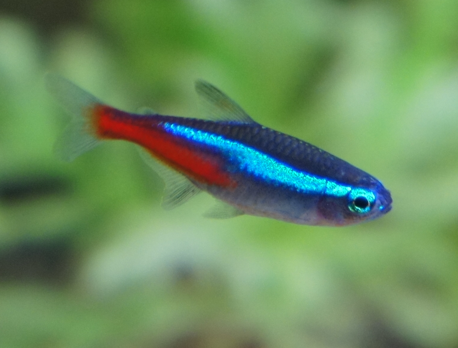 A Neon Tetra in a Community Tank